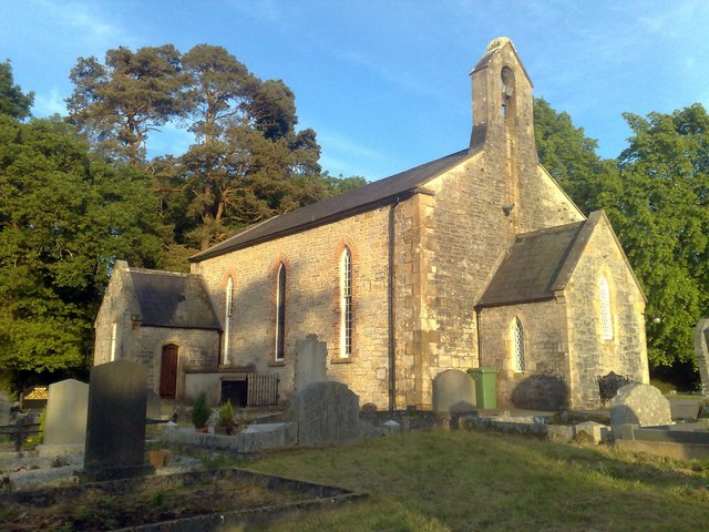 St. Michael's Church, Derrybrusk St. Michael's (Church of Ireland) in the parish of Derrybrusk. The church lies in Derryharney. The parish is joined with Maguiresbridge.